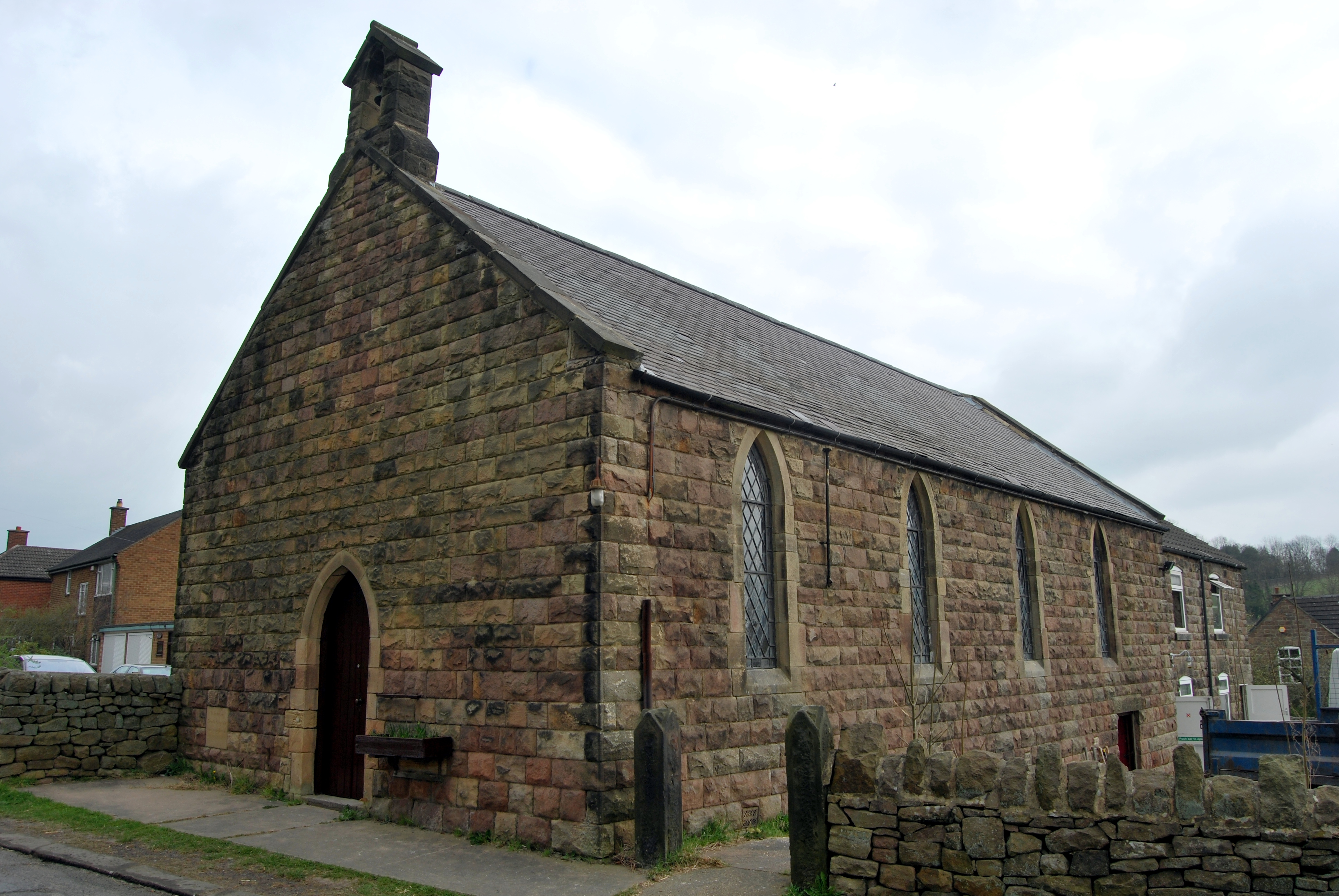 Mission church of St Faith, Belper Lane End, Derbyshire, seen from the southwest